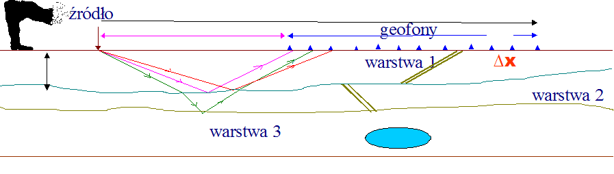 This image shows an idea of seismic reflection syrvey. Own work.